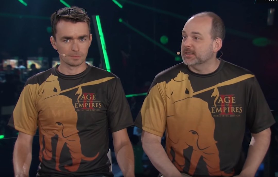 Adam Isgreen and Bert Beeckman at E3 2019. Isgreen is the creative director on Age of Empires II: Definitive Edition with Becckman being the co-founder of Forgotten Empires.